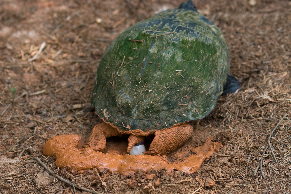 Red-eared slider (trachemys scripta elegans) laying an egg in a freshly-dug nest